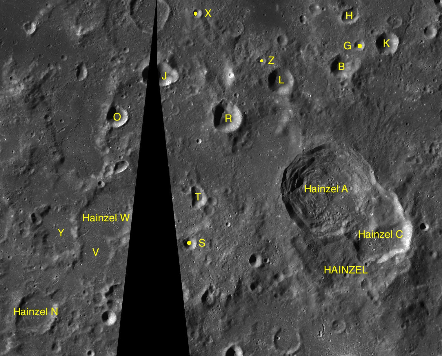 Parts of the charts LAC-110, LAC-111